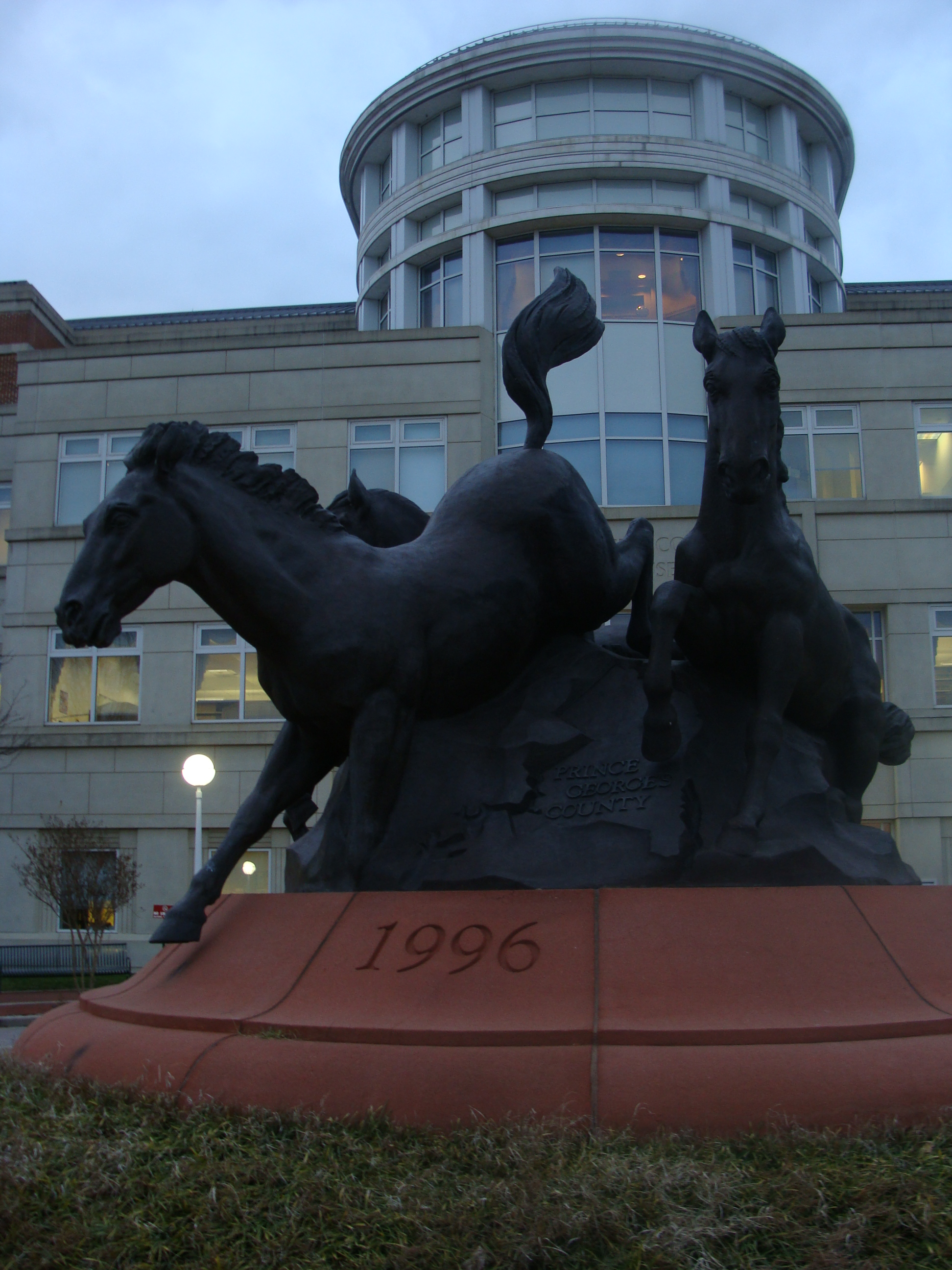 The front of the Prince George's County courthouse, in Upper Marlboro, Maryland in December 2008.